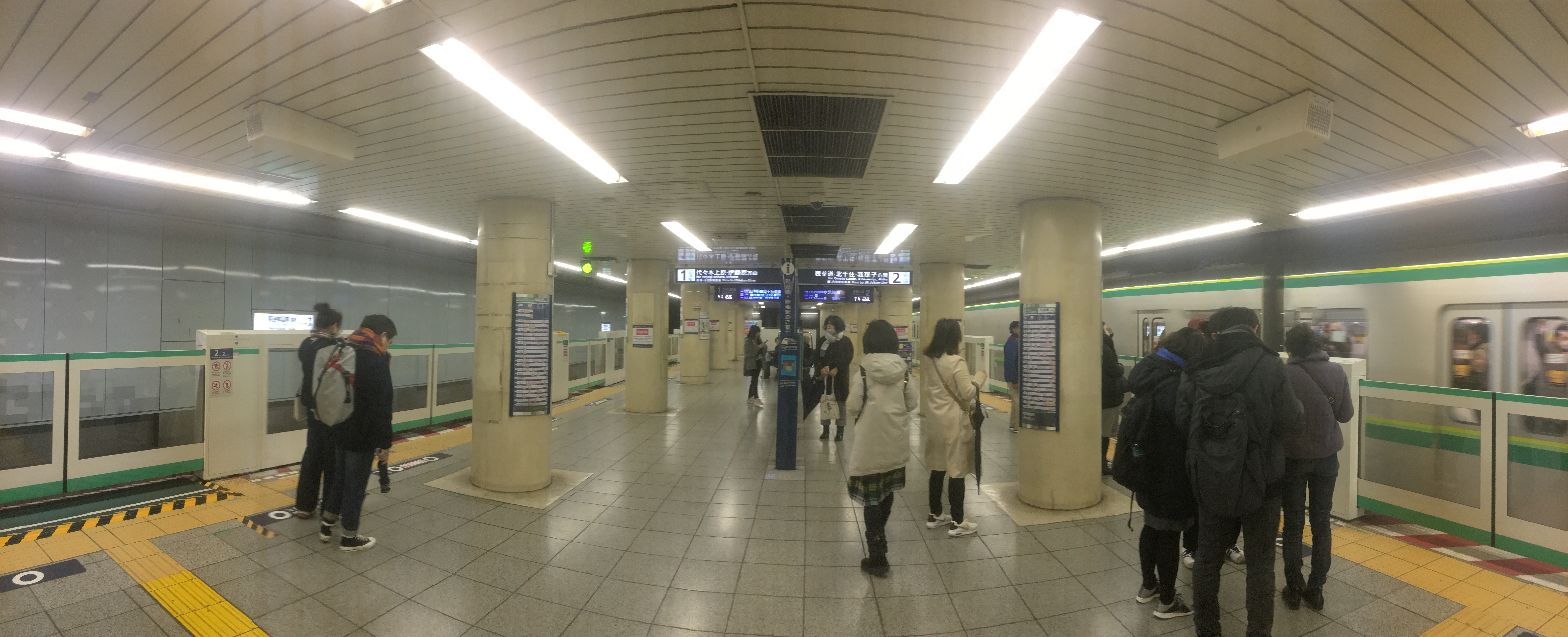 明治神宮前駅のホームと新しいホームドア (Meiji-Jingumae Station platforms and new platform gates)